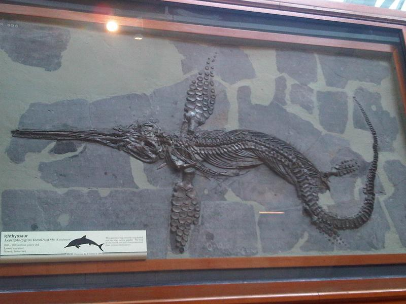 Leptonectes tenuirostris (formerly Leptopterygius) reconstruction at the Natural History Museum in London, UK.